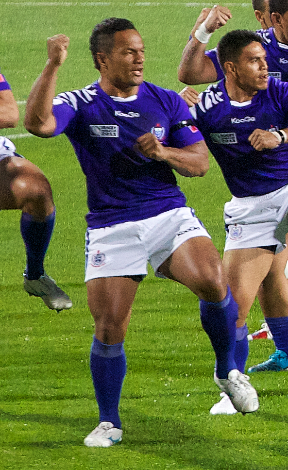 Samoan rugby union player Eliota Fuimaono-Sapolu before 2011 Rugby World Cup match against South Africa.